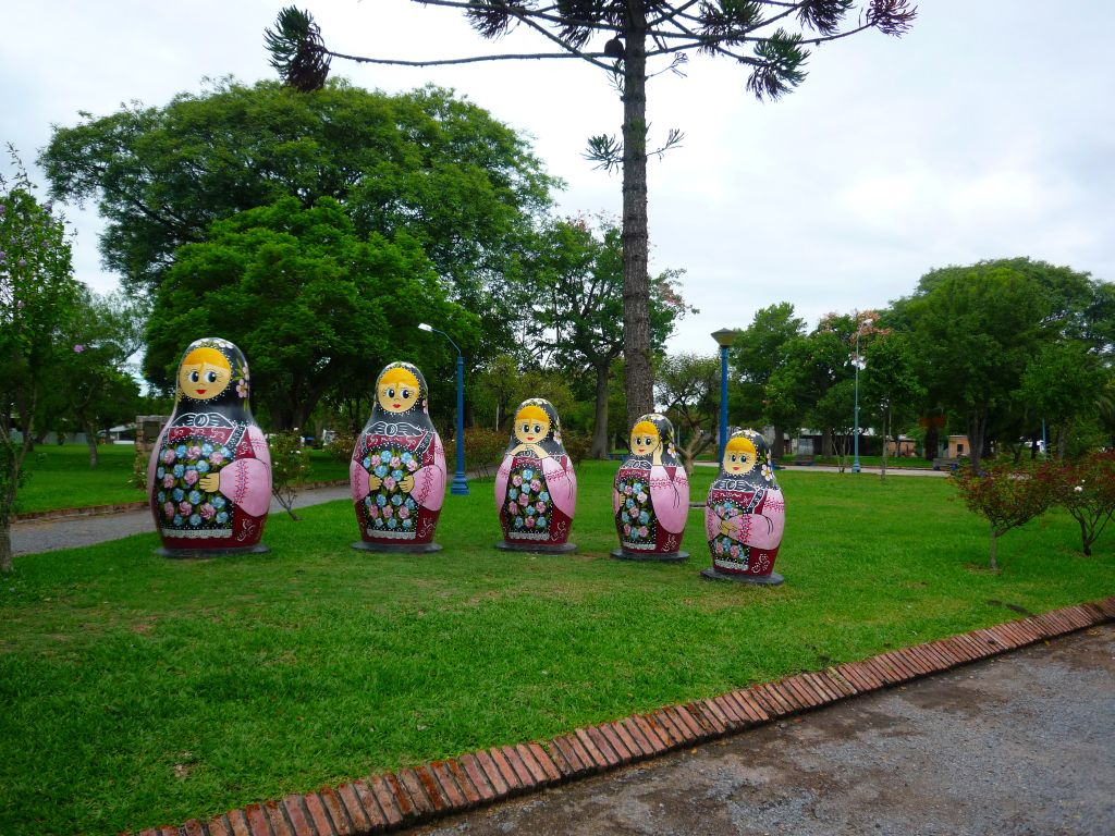 San Javier - Plaza de la Libertad - Monument of Russian Dolls to commemorate the Russian roots of the town.